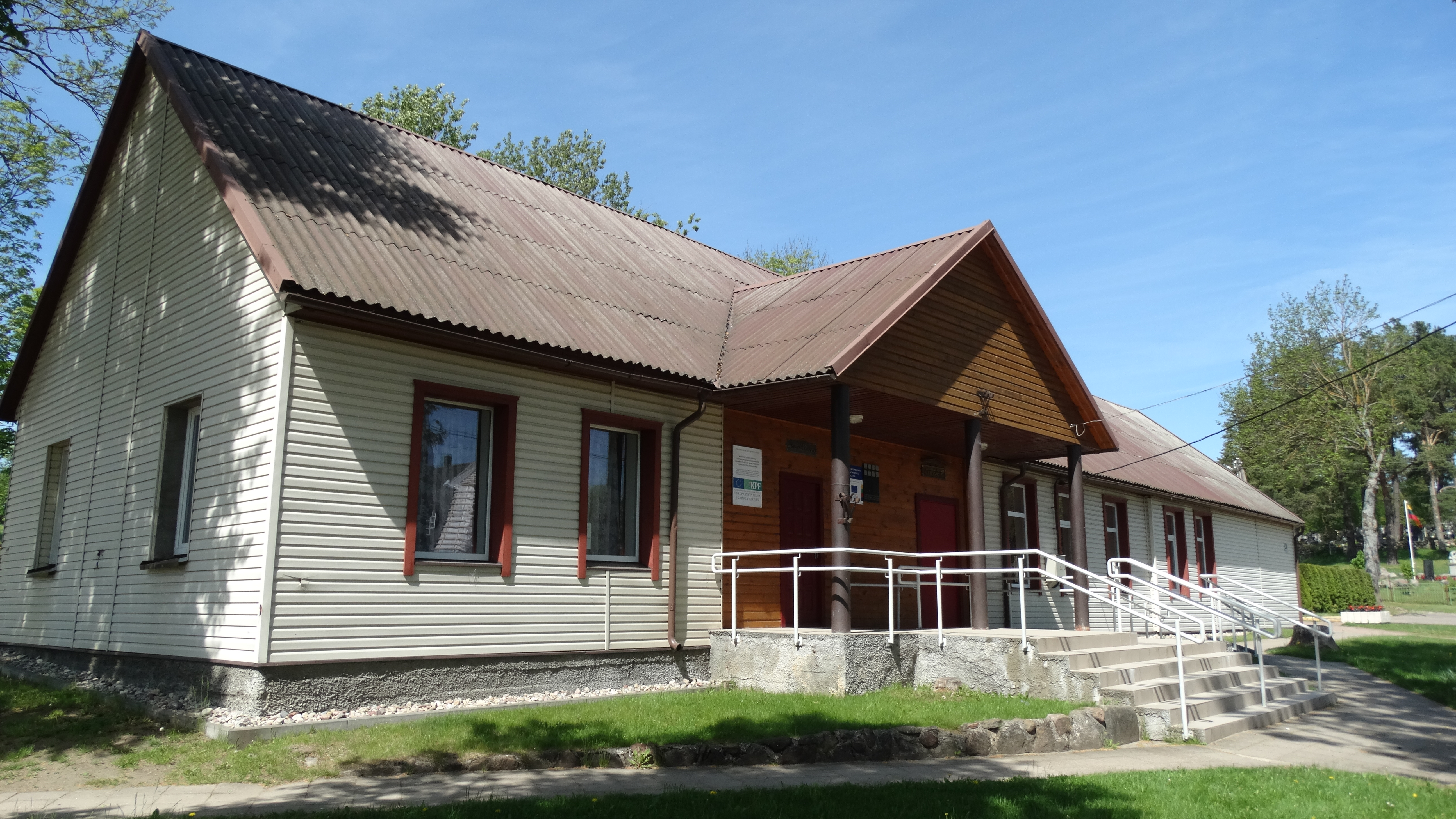 Ceikiniai, Ignalina district, Lithuania